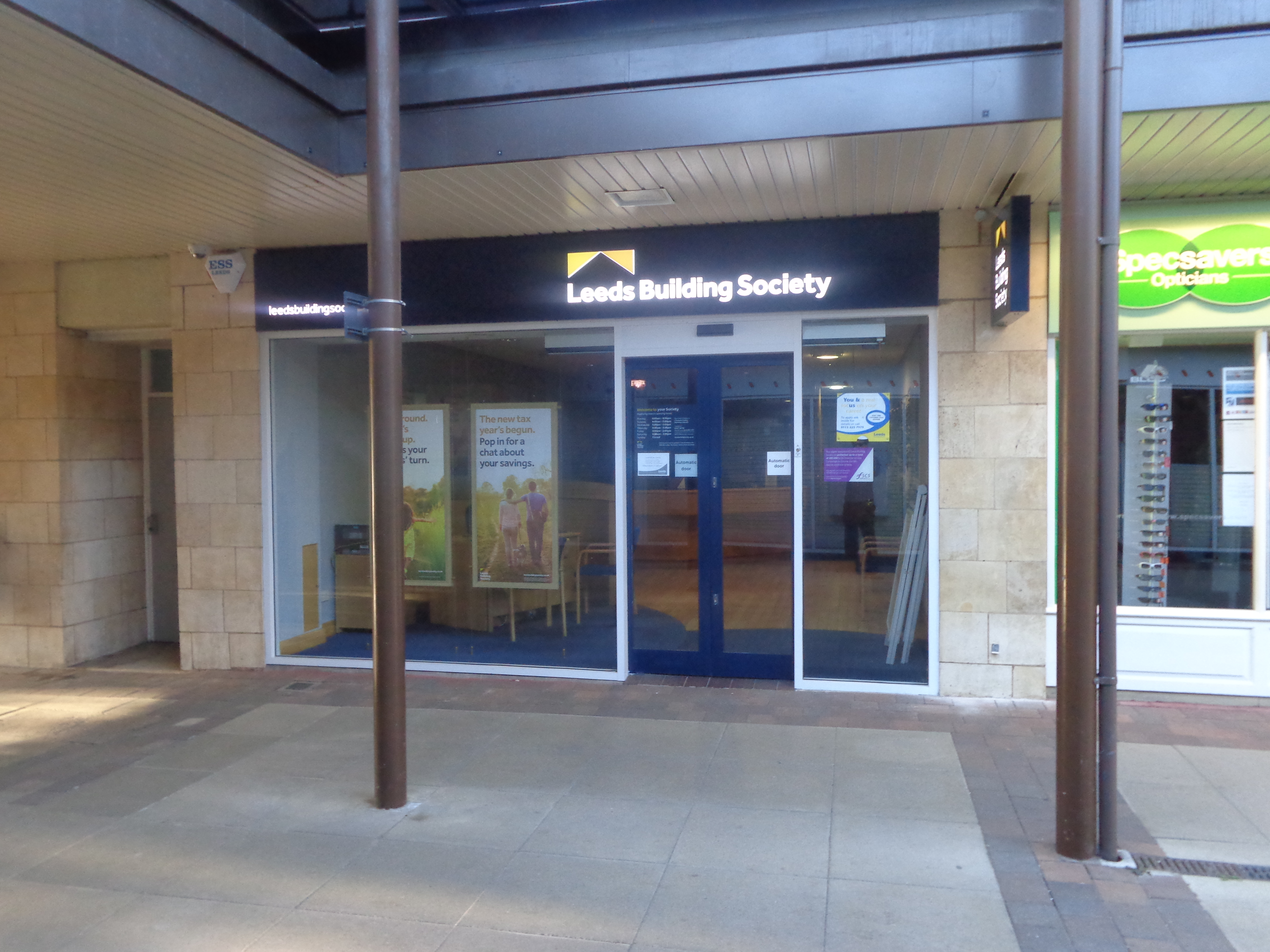 Leeds Building Society, Horsefair Centre, Wetherby, Wetherby, West Yorkshire. Taken on the afternoon of Good Friday the 18th of April 2014.